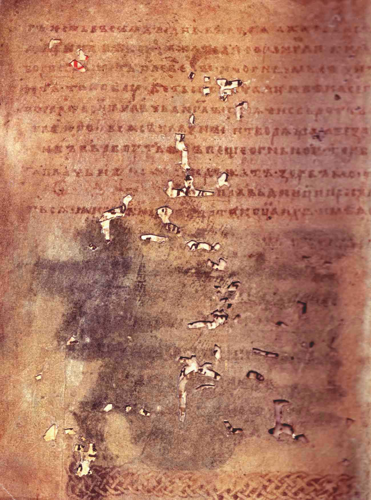 Archangel Gospel